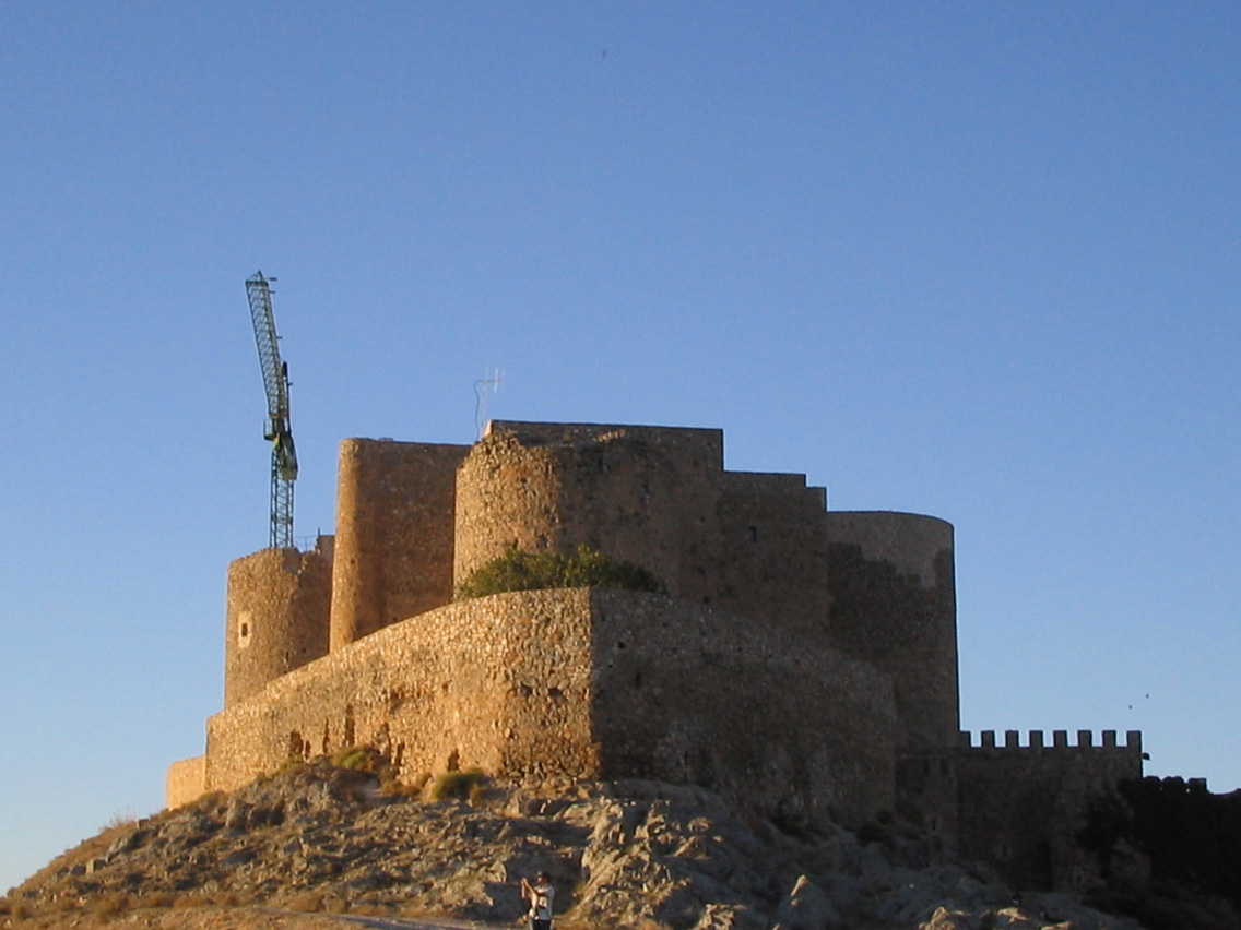 Castle in the town of Consuegra